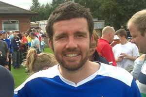 Photo taken by myself following a charity match between Leicester City and Nottingham Forest.